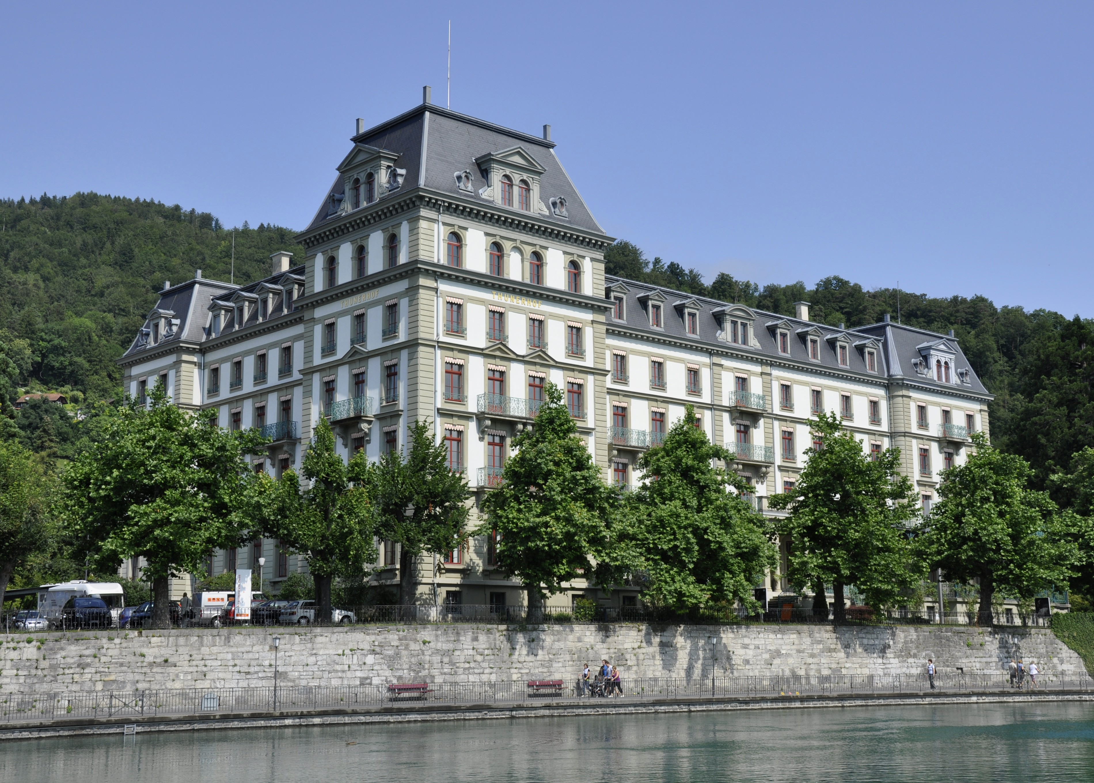 The former hotel "Thunerhof" as seen from the opposite bank of the river Aar